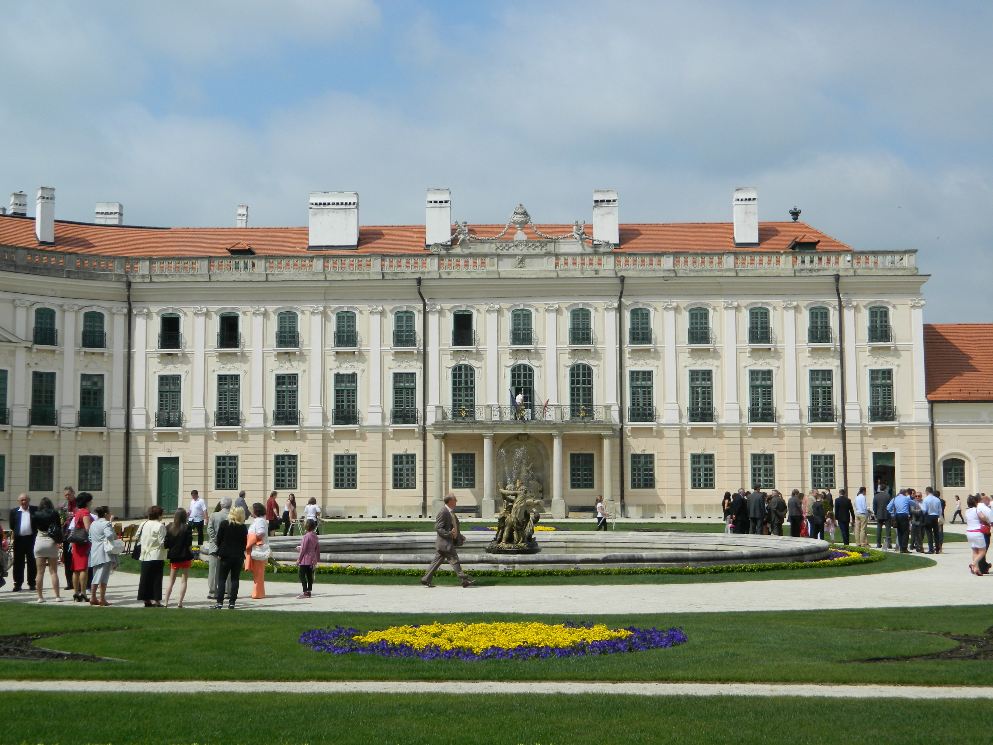 Esterhazy castle - inner court (western van, secondary school ), Fertőd This is a photo of a monument in Hungary. Identifier: 4051